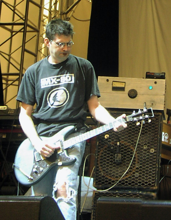 Shellac playing Pavilion Stage ATP vs The Fans